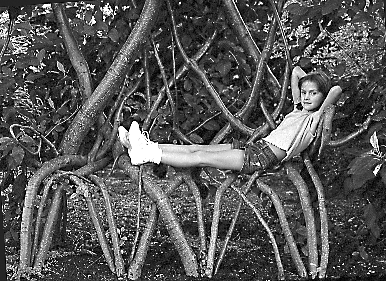 Myray Reames reclines on a living Red Alder arborsculpture bench.